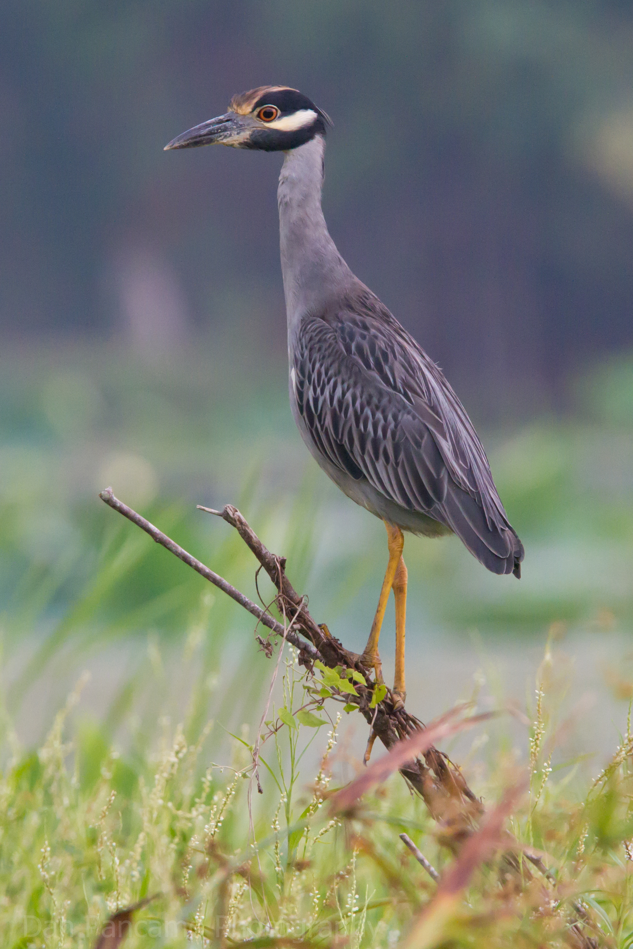 Yellow-crowned Night Heron